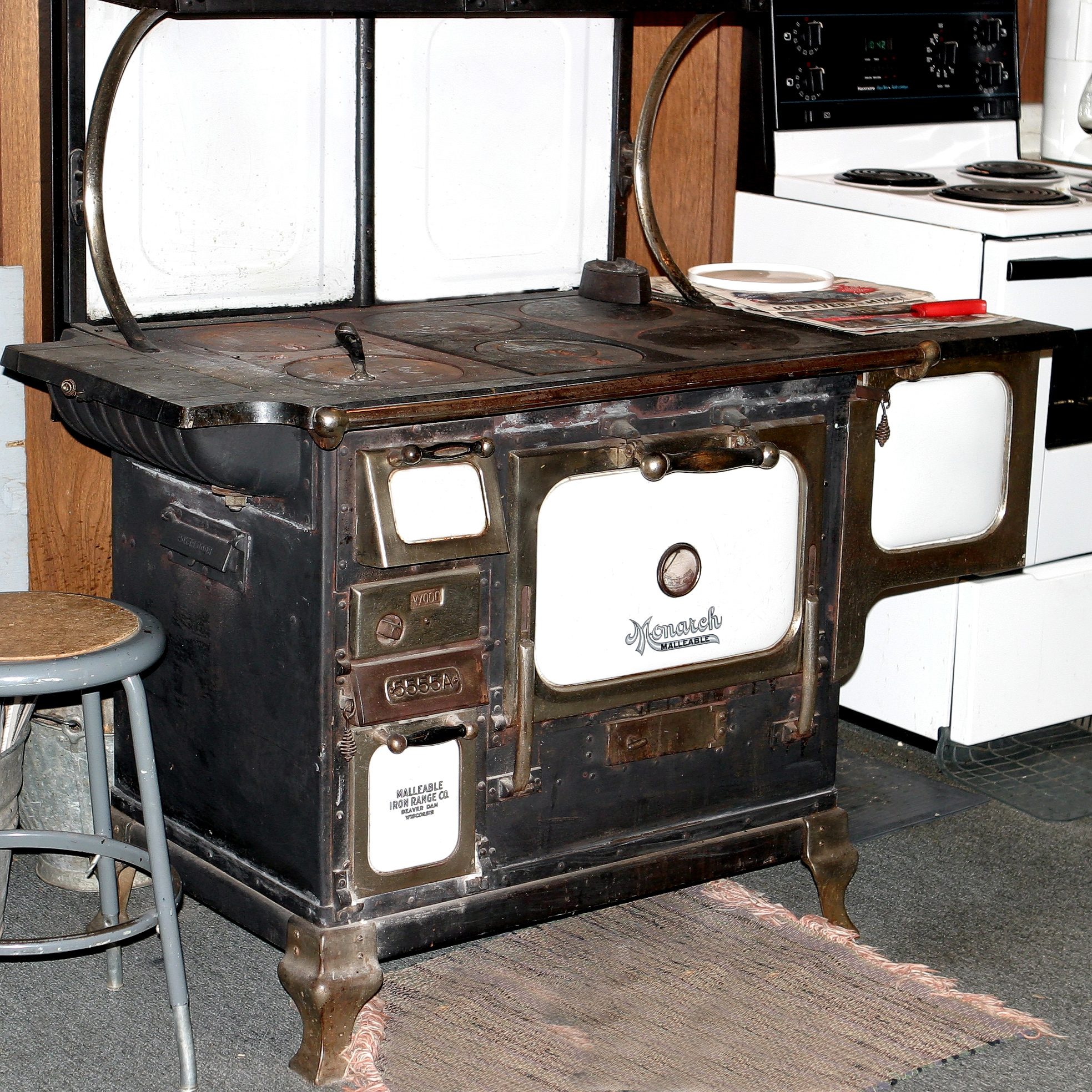 Self made picture taken in Manitoba Canada of a wood burning iron stove and oven.